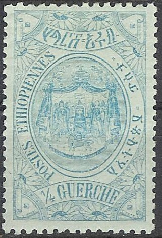 1909 1/4g stamp of Ethiopia depicting Throne of Solomon